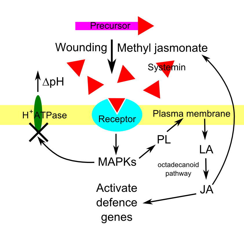 A diagram showing the steps thought to occur during the sensing of systemin. Adapted from figure 1 of: C.A. Ryan and G. Pearce, Systemins: A functionally defined family of peptide signal that regulate defensive genes in Solanaceae species, Proceedings of the National Academy of Sciences of the United States of America 100 (2003), pp. 14577-14580